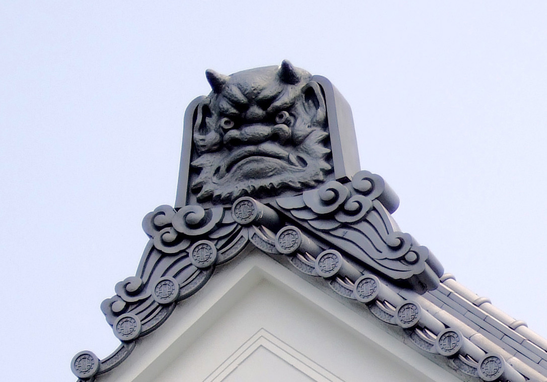 Onigawara on the roof of Tokyo National University of Fine Arts and Music. Photo taken in Ueno Tokyo Japan.